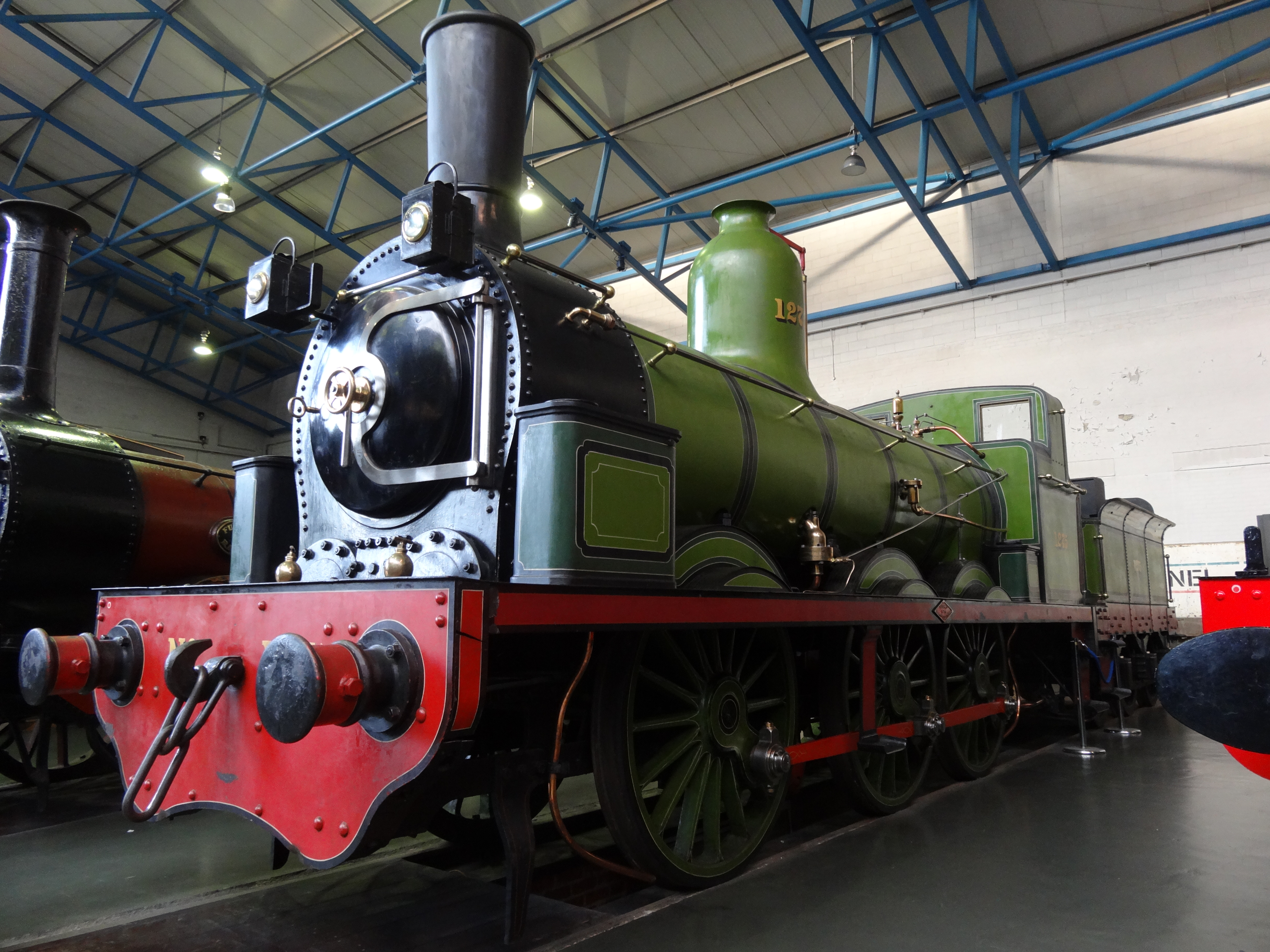 taken at the National Railway Museum York